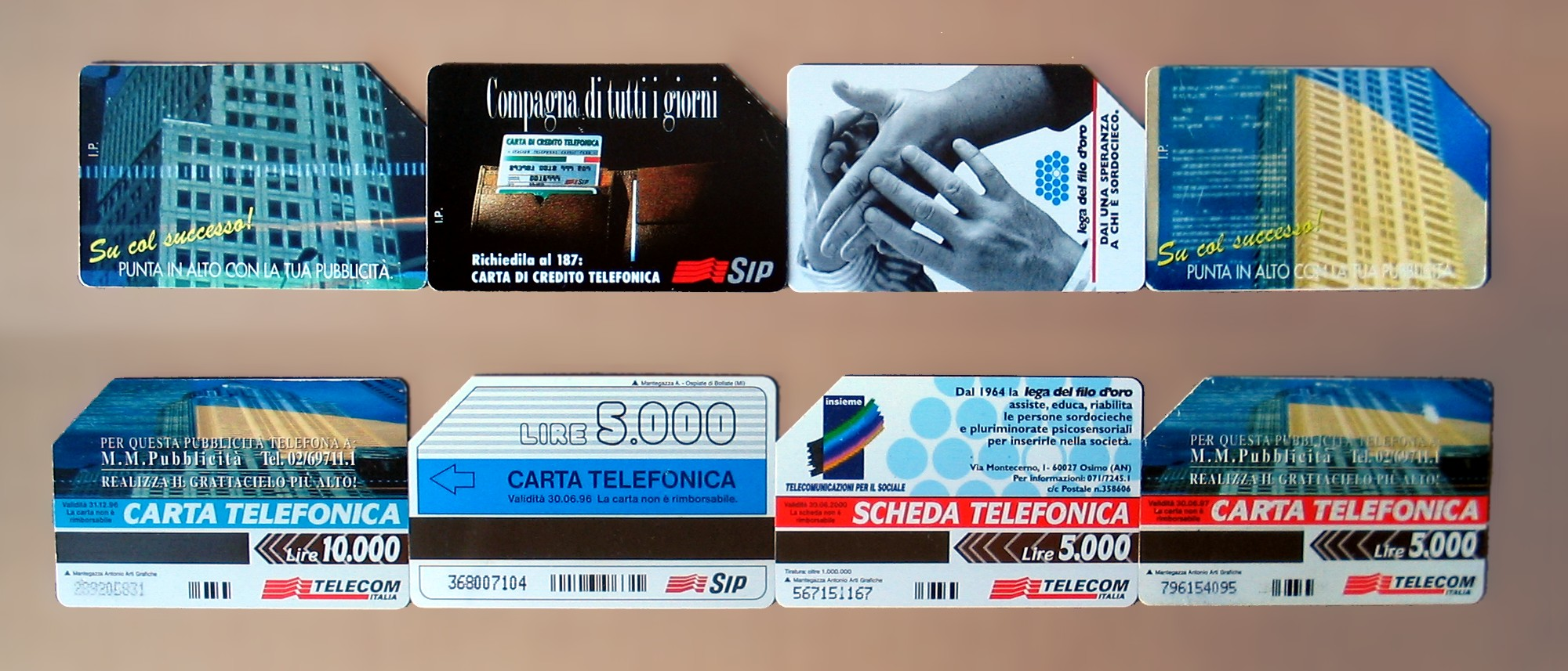 4 Italian telephone cards